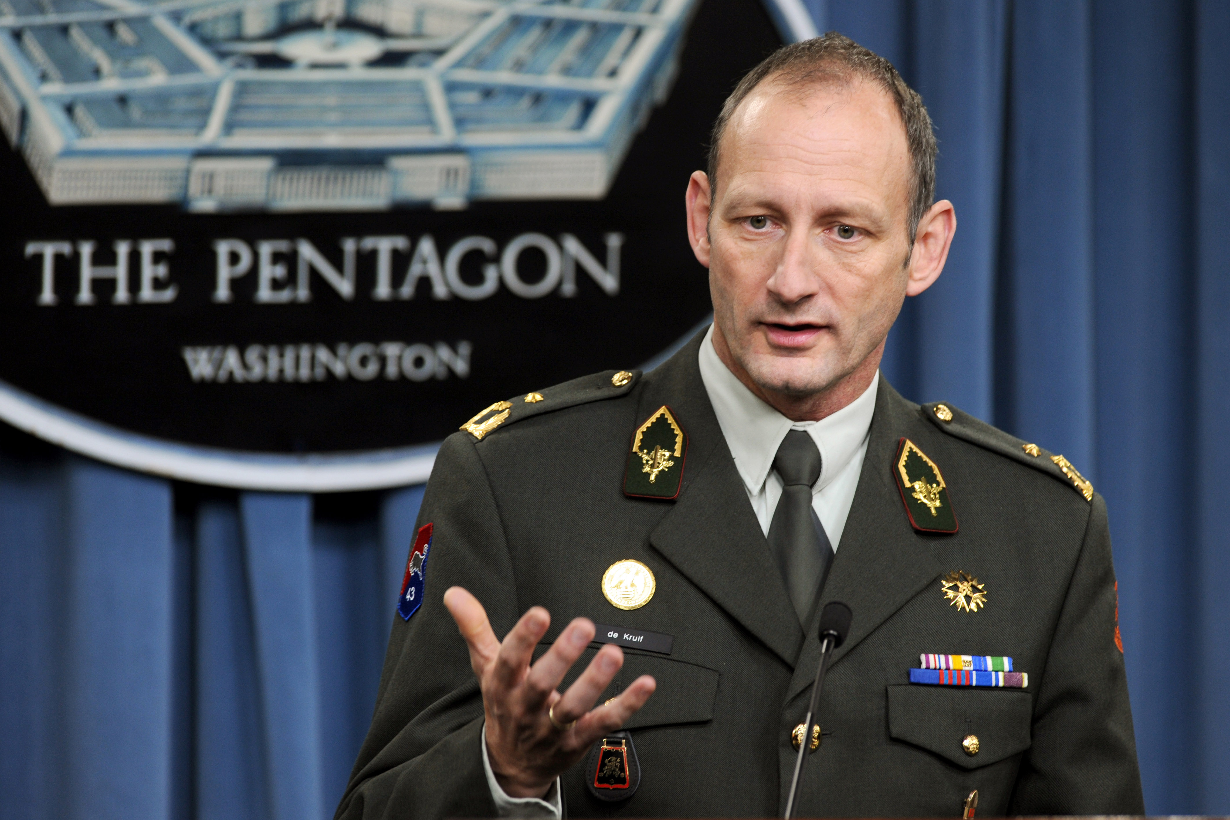 Former commander of the NATO International Security Assistance Force Regional Command South Maj. Gen. Mart de Kruif of the Royal Netherlands Army discusses his experiences leading 40,000 coalition troops in southern Afghanistan over the past year during a press conference held in the Pentagon on Dec. 14, 2009.